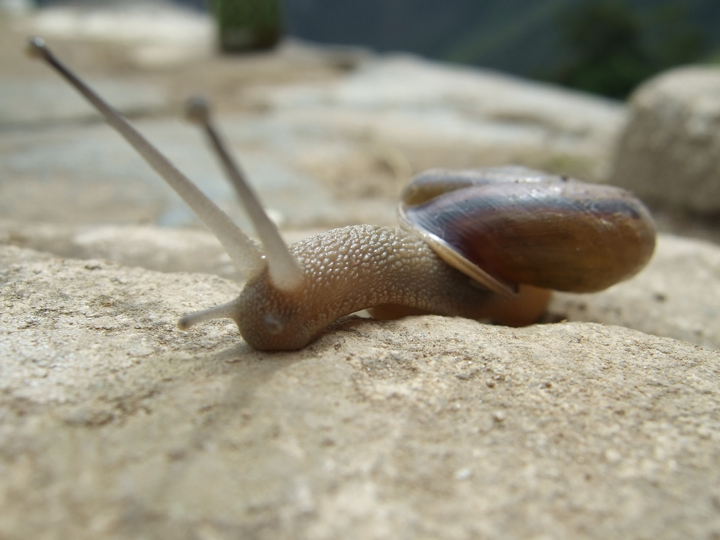 an unidentified land snail from Machu Picchu, Peru